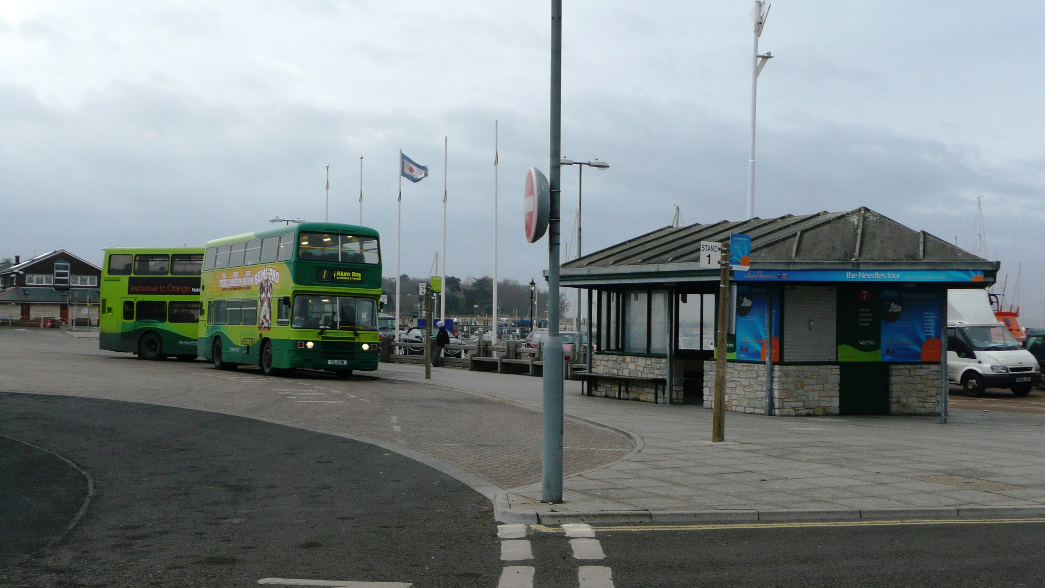 Yarmouth, Isle of Wight bus station, with Southern Vectis buses 718 (front) and 746 (behind it). 718 is a Leyland bodied Leyland Olympian, 746 a Volvo Olympian/Northern Counties Palatine. Neither were in service with Southern Vectis by the end of 2009.